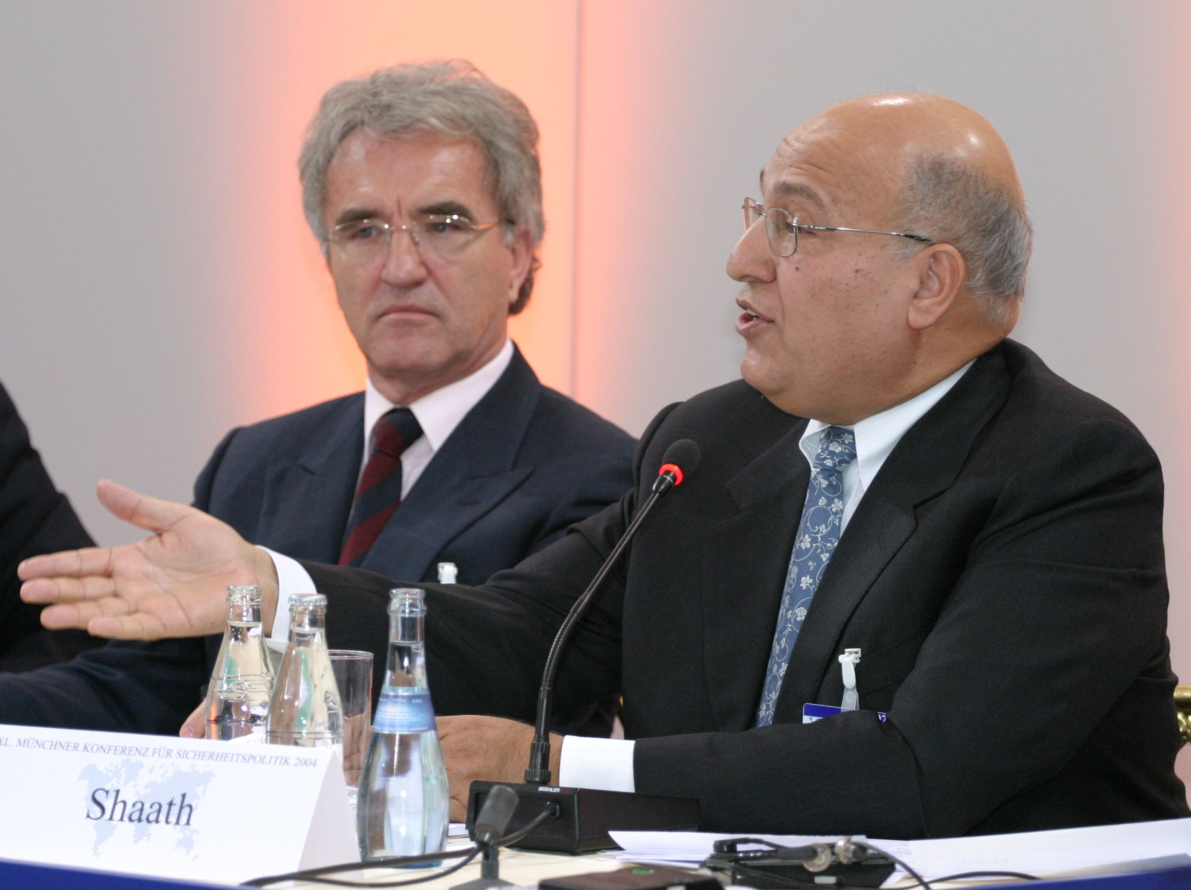 40th Munich Security Conference 2004: Nabil Shaath(ri.), Minister of planning and International Cooperation, Palestinian Authority, and Prof.h.c. Horst Teltschik.